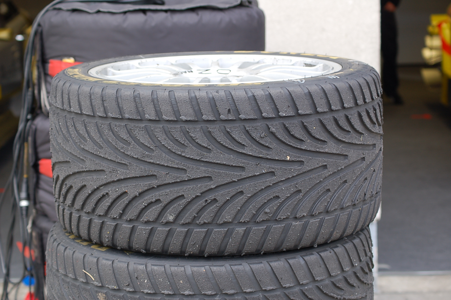 Wet-Wheels of a DTM-Racecar